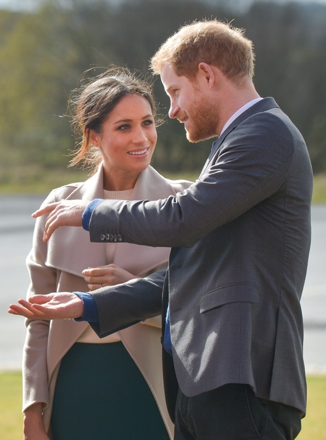 Visiting Belfast city centre during their first visit to Northern Ireland on 23 March 2018, Prince Harry and Ms. Markle Markle begin their first visit to Northern Ireland at the Eikon Centre at an event celebrating the youth-led peace-building initiative ‘Amazing the Space’ and showcasing groundbreaking cross community and reconciliation work from young people across Northern Ireland. Launched by Prince Harry in September 2017, ‘Amazing the Space’ empowers young people across Northern Ireland to become ambassadors for peace within their communities.